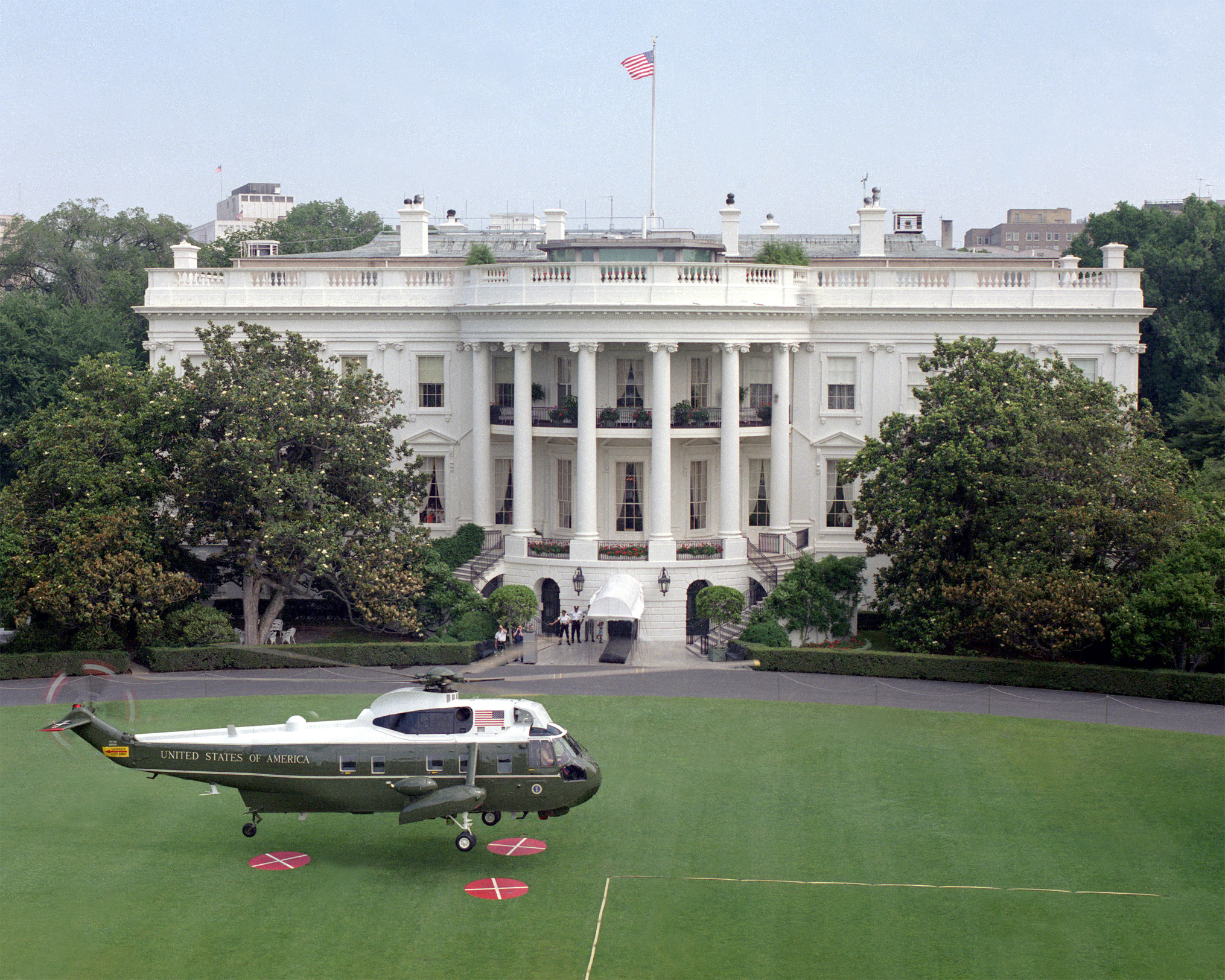 A U.S. Marine Corps Helicopter Squadron 1 (HMX-1) Sikorsky VH-3D Sea King helicopter lands on the south lawn of the White House in Washington D.C. (USA) in 1987.